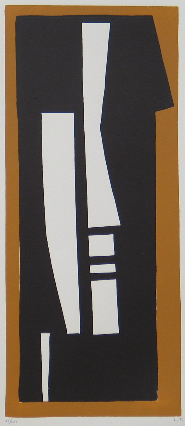 .Ansikt (=face), linocut, 48,4x27,8 cm, by the Norwegian painter Lars Tiller